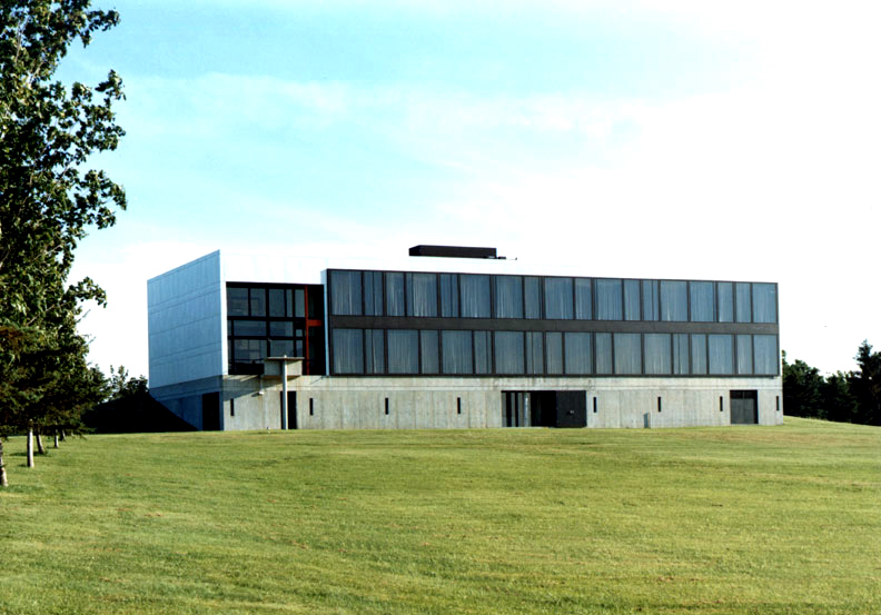 The new administration building for Willard State Hospital, a large psychiatric hospital campus. The building references the Ambassador's Residence for Brasilia by Le Corbusier.